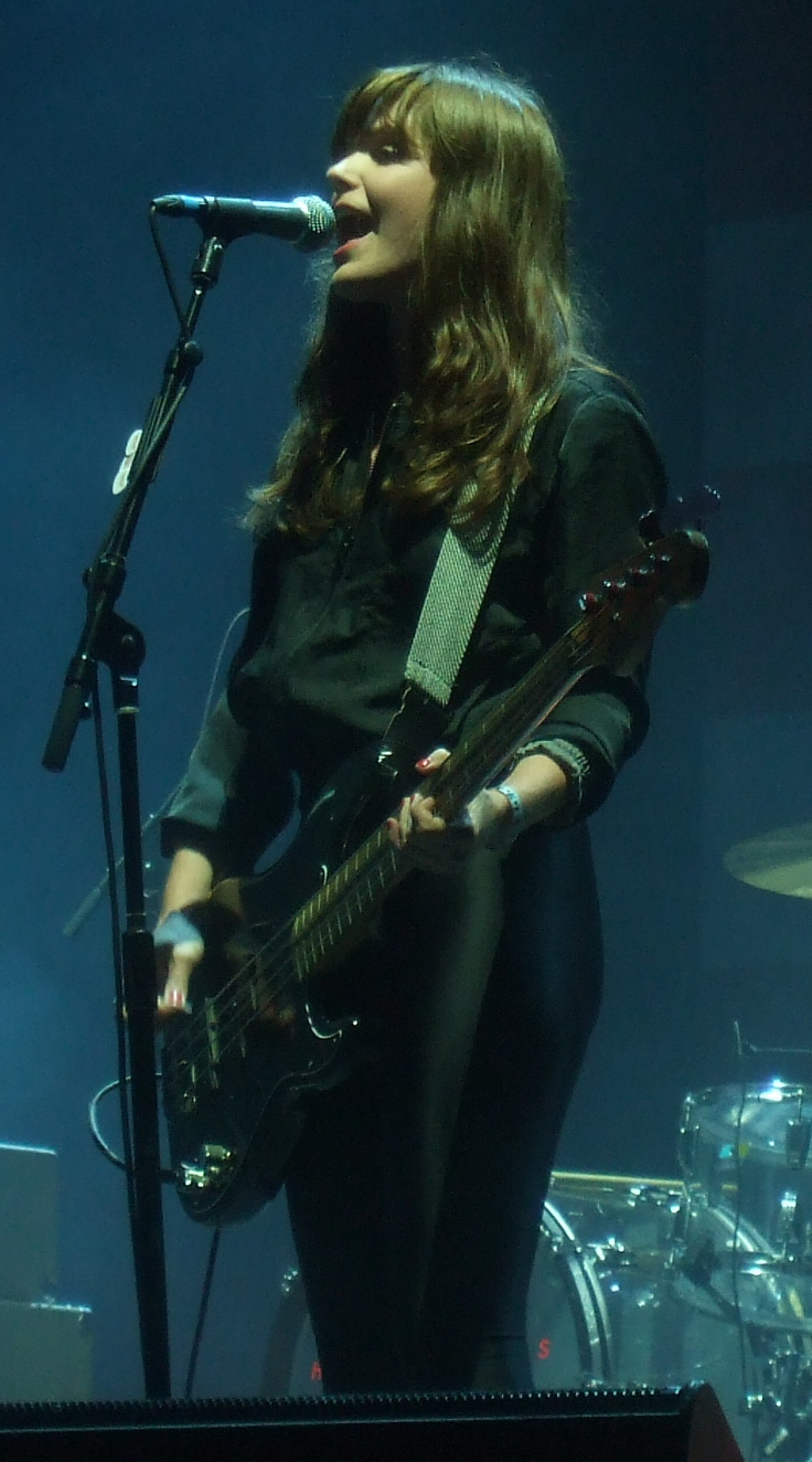 Johanna Asplund performing with the rock band Sahara Hotnights at Gatufesten in Sundsvall, Sweden